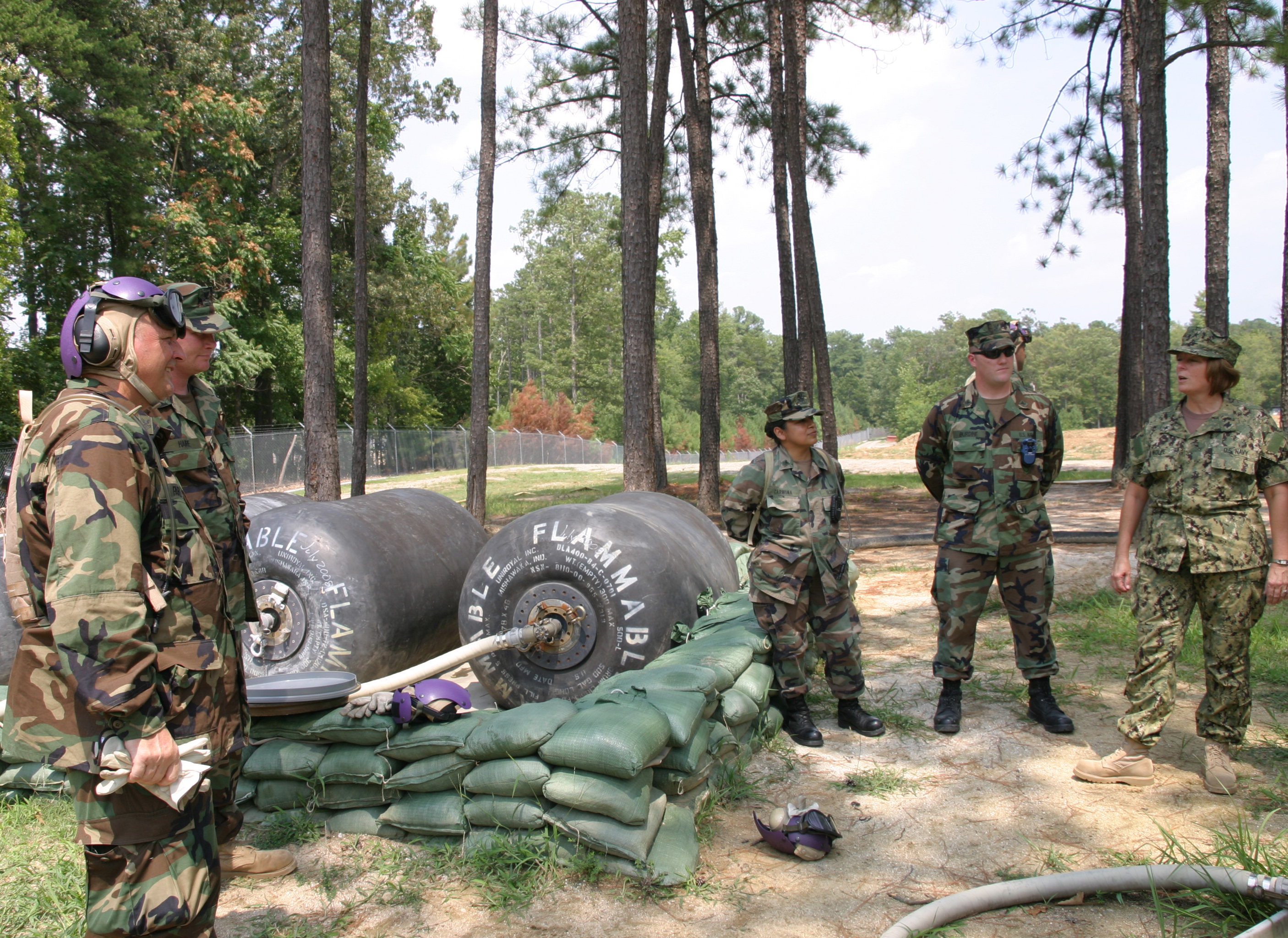 FORT LEE, Va. (Aug. 8, 2010) Rear Adm. Patricia Wolfe, commander of Navy Expeditionary Logistics Support Group, right, talks to Sailors assigned to Navy Cargo Handling Battalion (NCHB) 4 at Fort Lee, Va. Wolfe is wearing the Navy Working Uniform Type III during the conformance test phase. Sailors are conducting fuel cargo handling exercises as part of unit level training readiness assessment (ULTRA) Aug. 5-8. (U.S. Navy photo by Chief Mass Communication Specialist Lucy M. Quinn/Released)